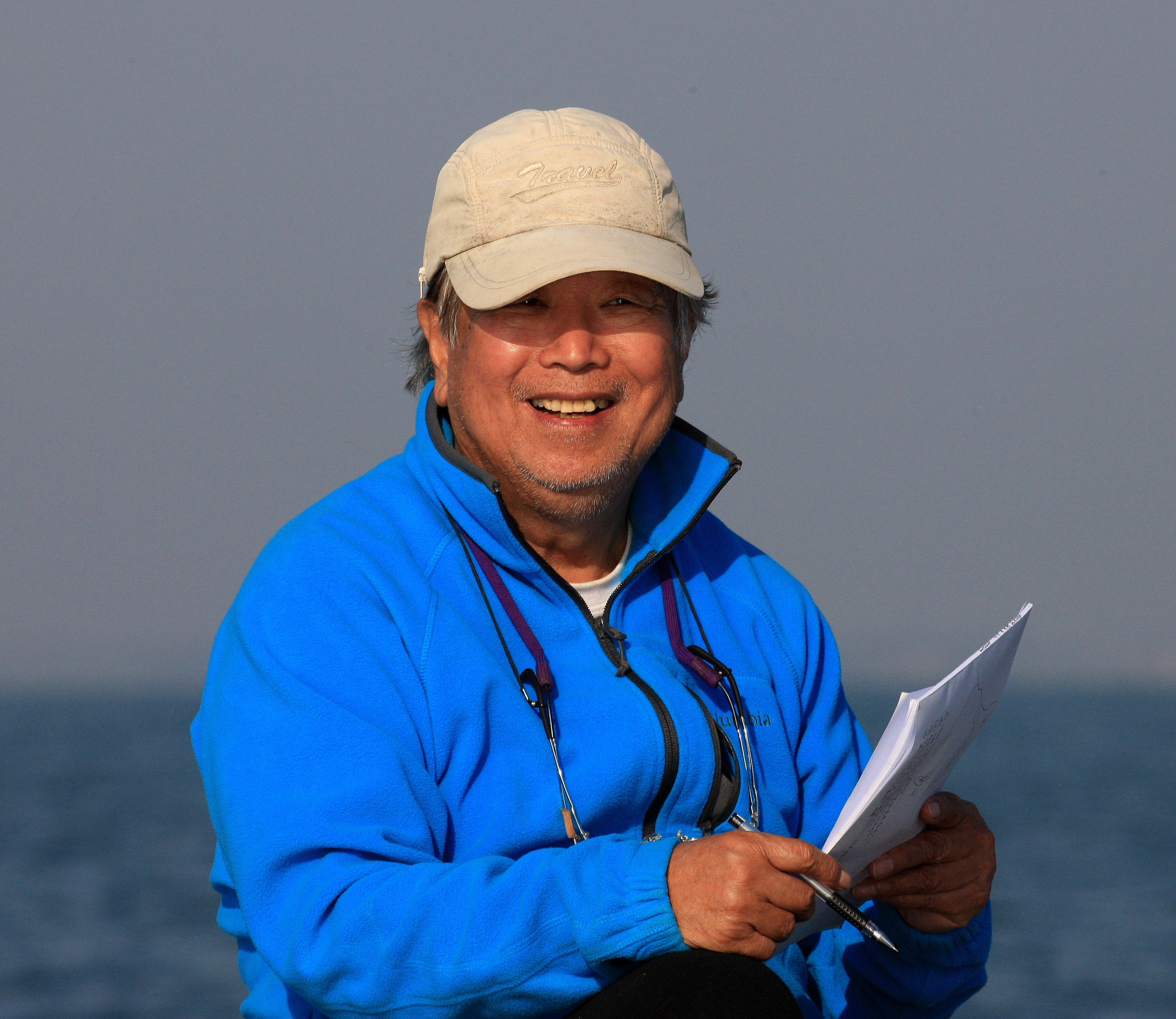 Prof. Pan Wenshi in Sanniang Bay of Qinzhou, Guangxi, China in December 2011. His research works on Giant Panda, white-headed langur and Chinese white dolphin in China